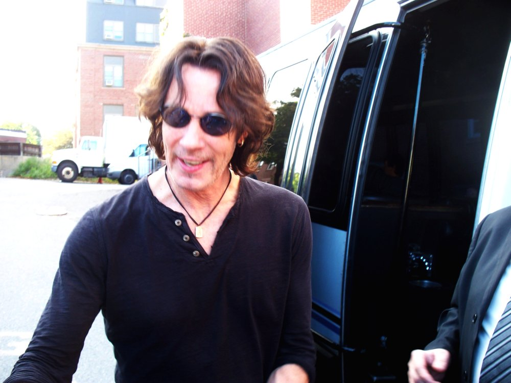 Rick Springfield-pop singer and daytime TV star in "General Hospital"--big hits "Speak To The Sky" and "Jessie's Girl"; performed in Medford, Mass. at the Chevalier Theater on Sept. 10, 2011.